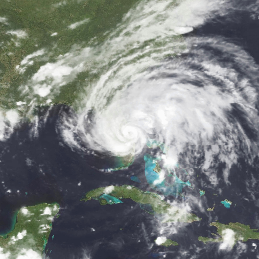 Hurricane David near landfall on the east coast of Florida on September 3, 1979